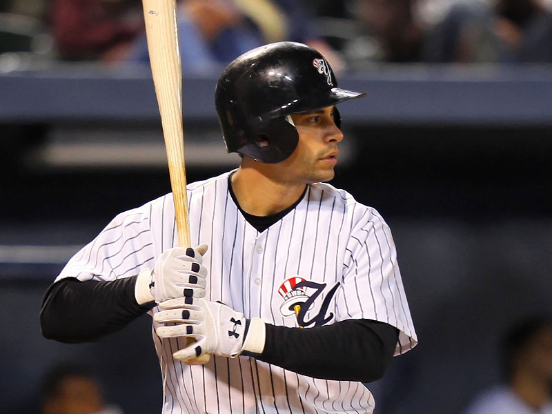 Description Kevin Russo at bat, September 2009, Scranton, PA Date3 June 2010, 21:38 (UTC)SourceI (BubbaFan (talk)) created this work entirely by myself.AuthorBubbaFan (talk) 21:38, 3 June 2010 . . BubbaFan . . 800×600 (76 KB) Kevin Russo at bat, September 2009, Scranton, PA